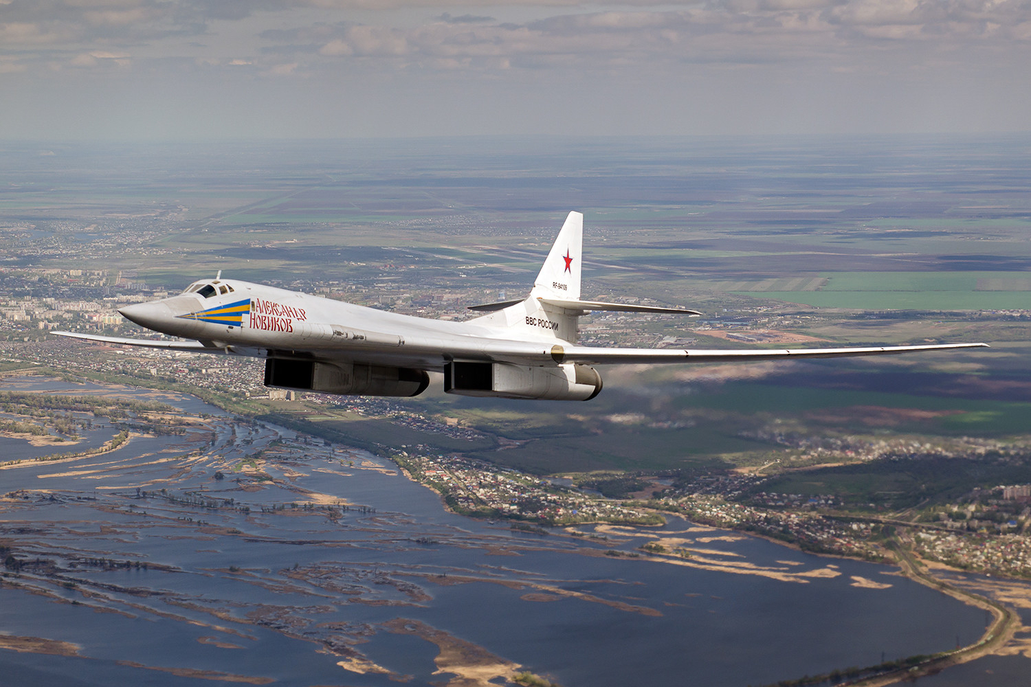 Tupolev Tu-160 RF-94109 over the Volga and the cities of Engels (left) and Privolzsky (right), Saratov Region, view to the east. In far center, right behind the aircraft tail, is the Engels military air base.